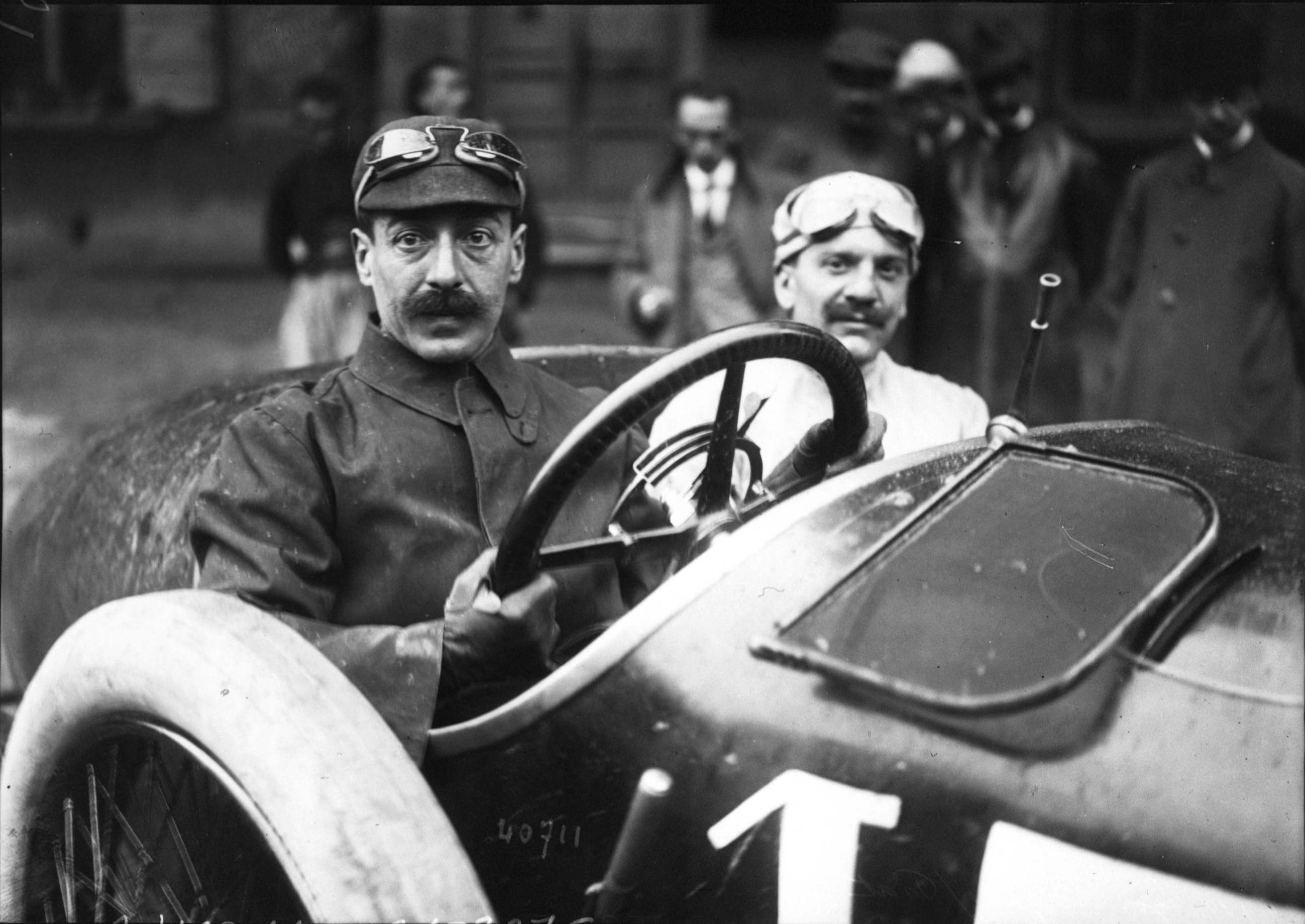 Alessandro Cagno at the 1914 French Grand Prix